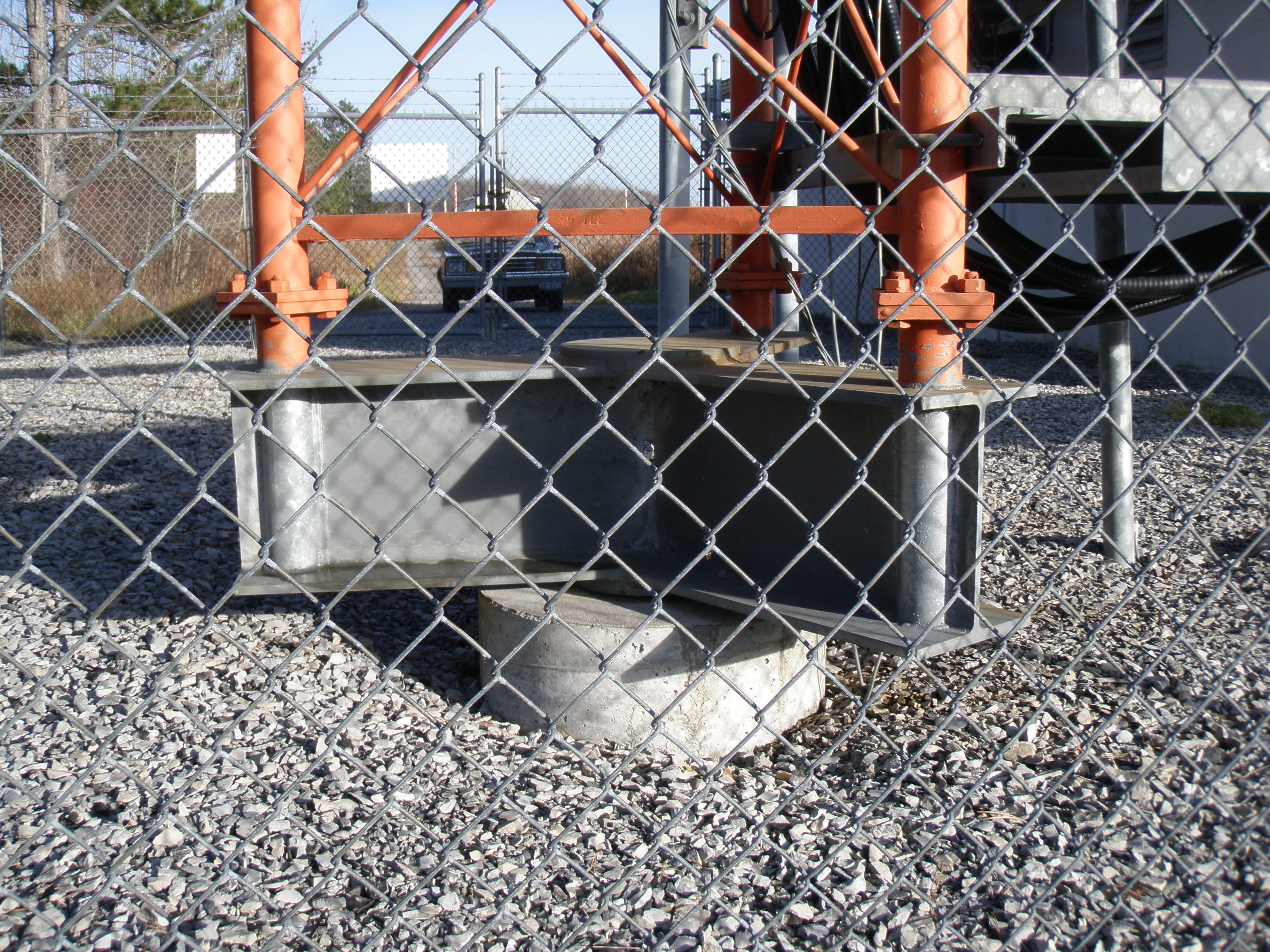 Bottom of a radio tower